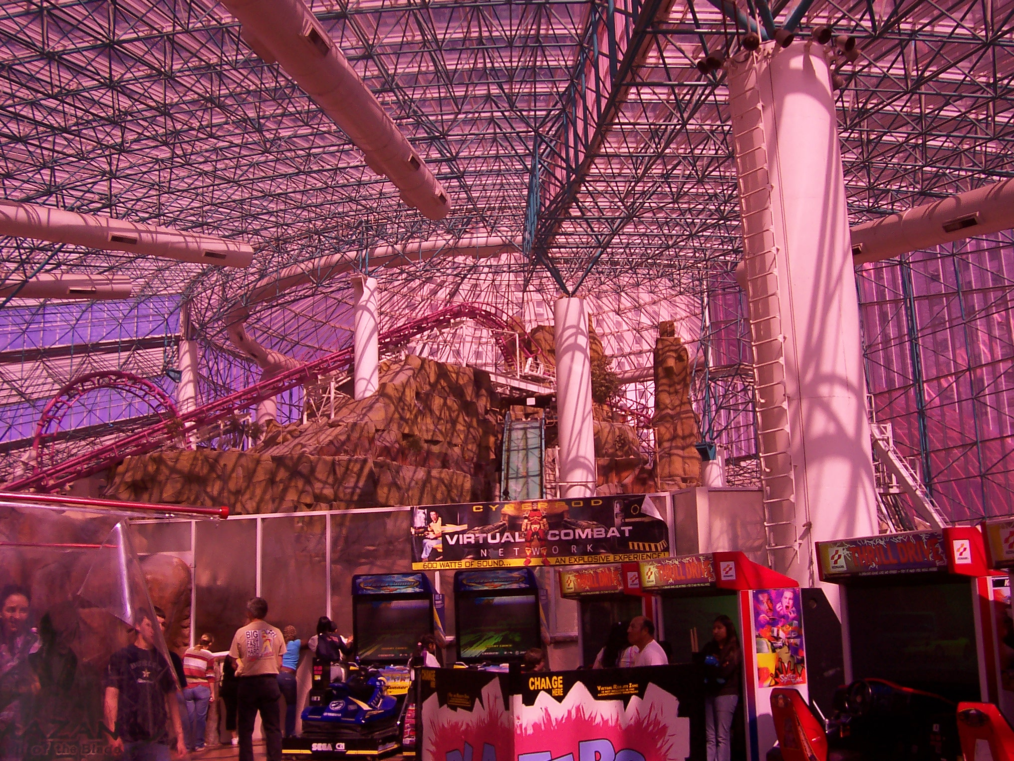 Circus Circus Las Vegas Adventuredome in Las Vegas